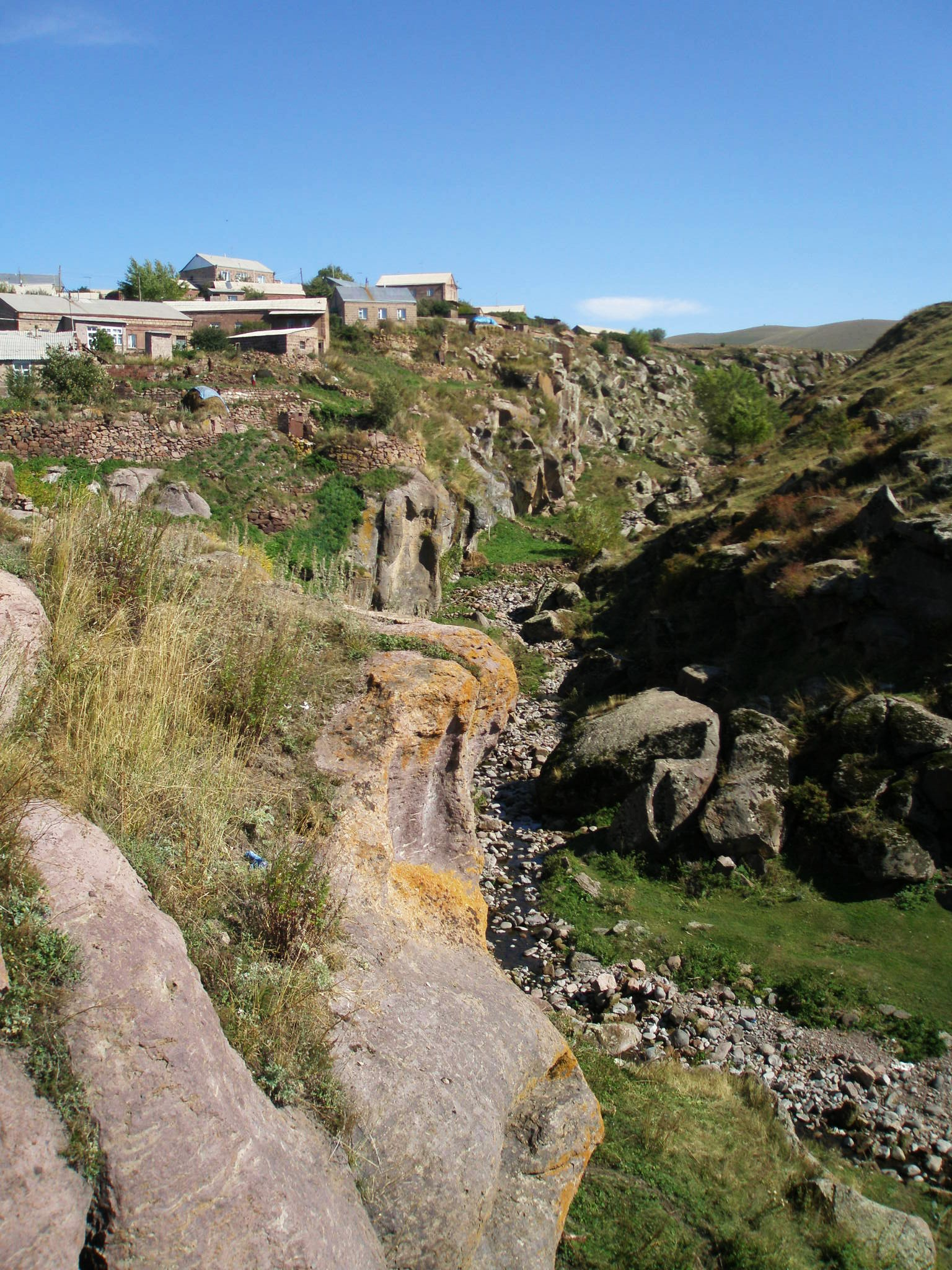 The village of Harich with the gorge below.